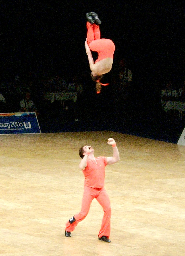 Photo of Rock'n'Roll dancing. Daniela Bechtold and Bernd Diel dancing the double somersault at the World Games 2005 in Oberhausen, Germany. Taken during the first day of the RR competition in the König-Pilsener-Arena in Oberhausen.